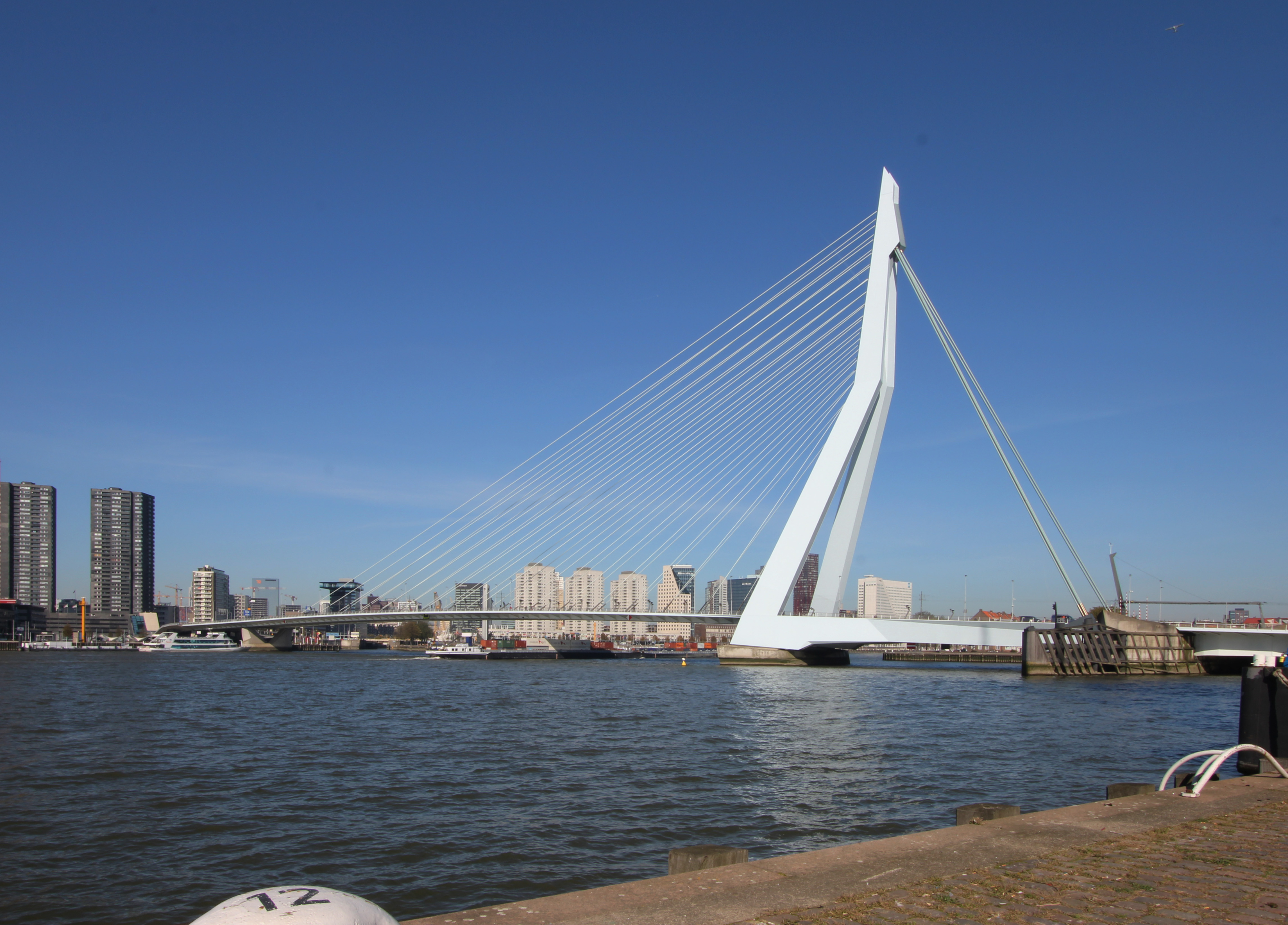 The Erasmusbrug ("Erasmus Bridge") is a cable stayed bridge across the Nieuwe Maas river, linking the northern and southern halves of the city of Rotterdam, The Netherlands.